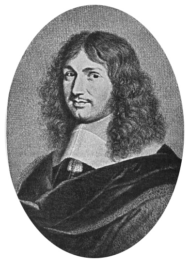 Jean-Baptiste Colbert (1619-1683)